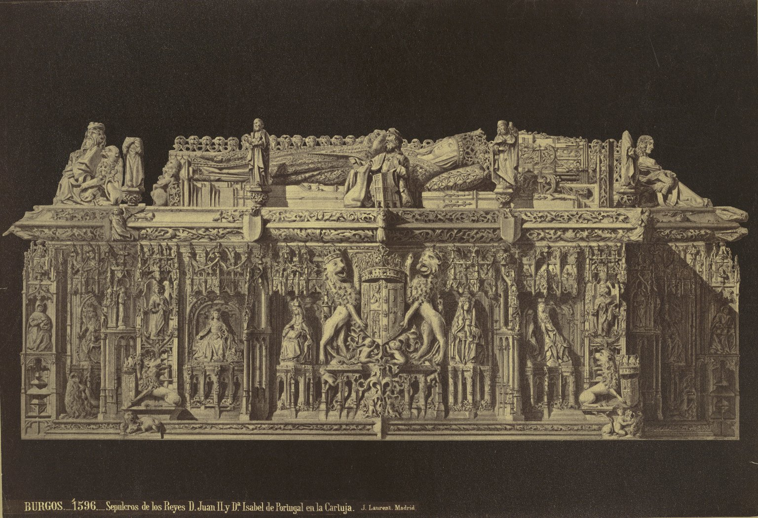 Drawing of Tomb of Juan II of Castille and his wife, Isabella of Portugal, in the Miraflores Charterhouse, Burgos. Spain.